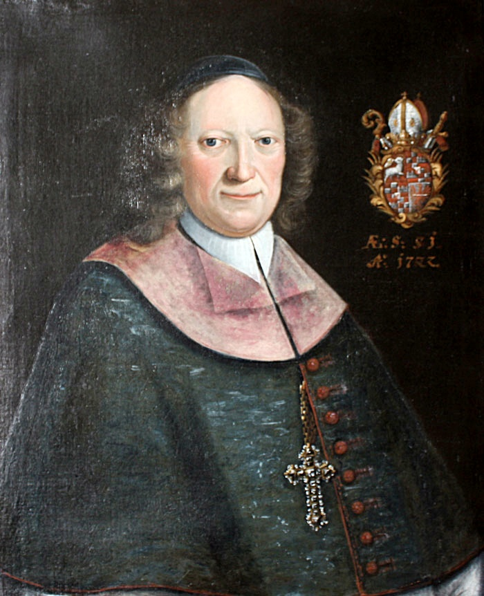 Portrait of Kaspar Ignaz von Künigl (1671-1747)